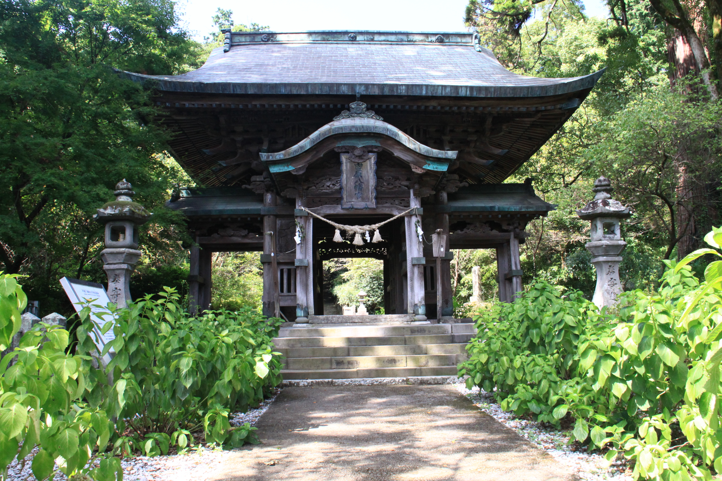 The south gate is called ‘Higurashimon.’